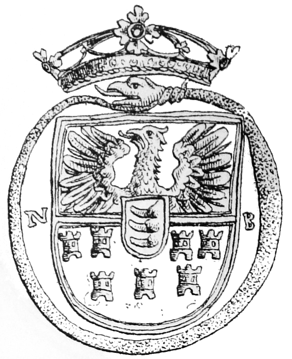 Coat of arms of Gabriel Bathory